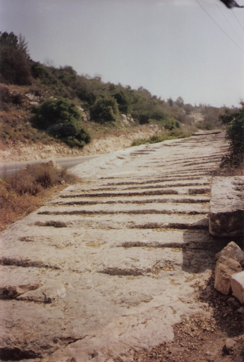 roman road, ha'ela valley, israel